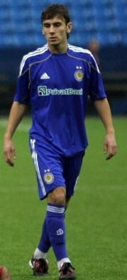 Serhiy Rybalka